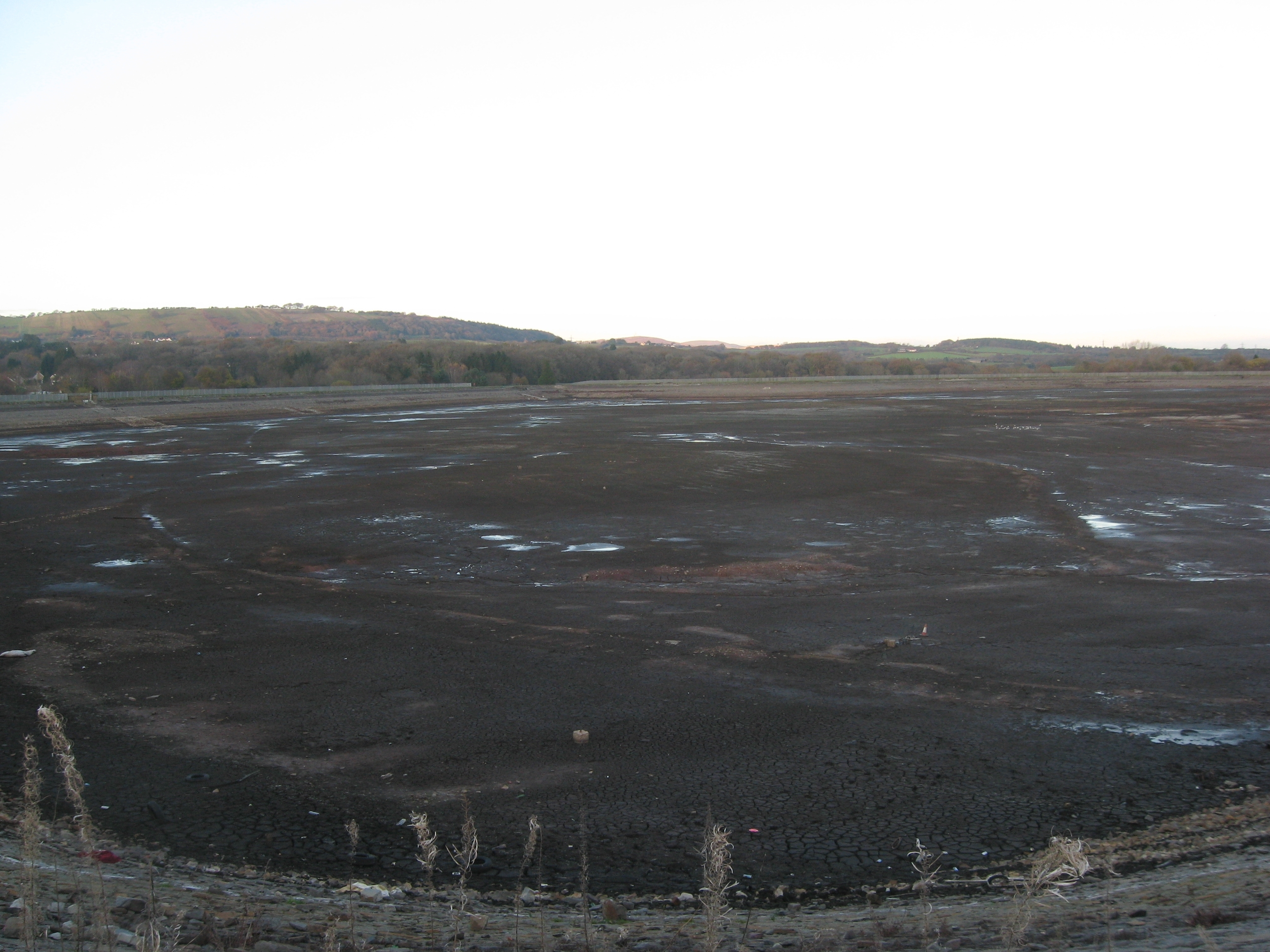 Llanishen reservoir (semi-drained) - basin